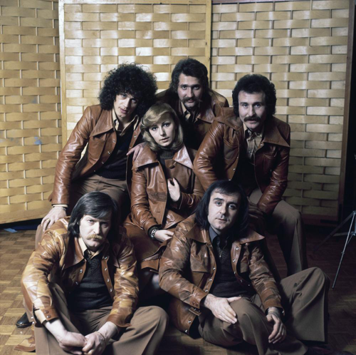 Portrait of Ambasadori at the day of the Eurovision Song Contest 1976